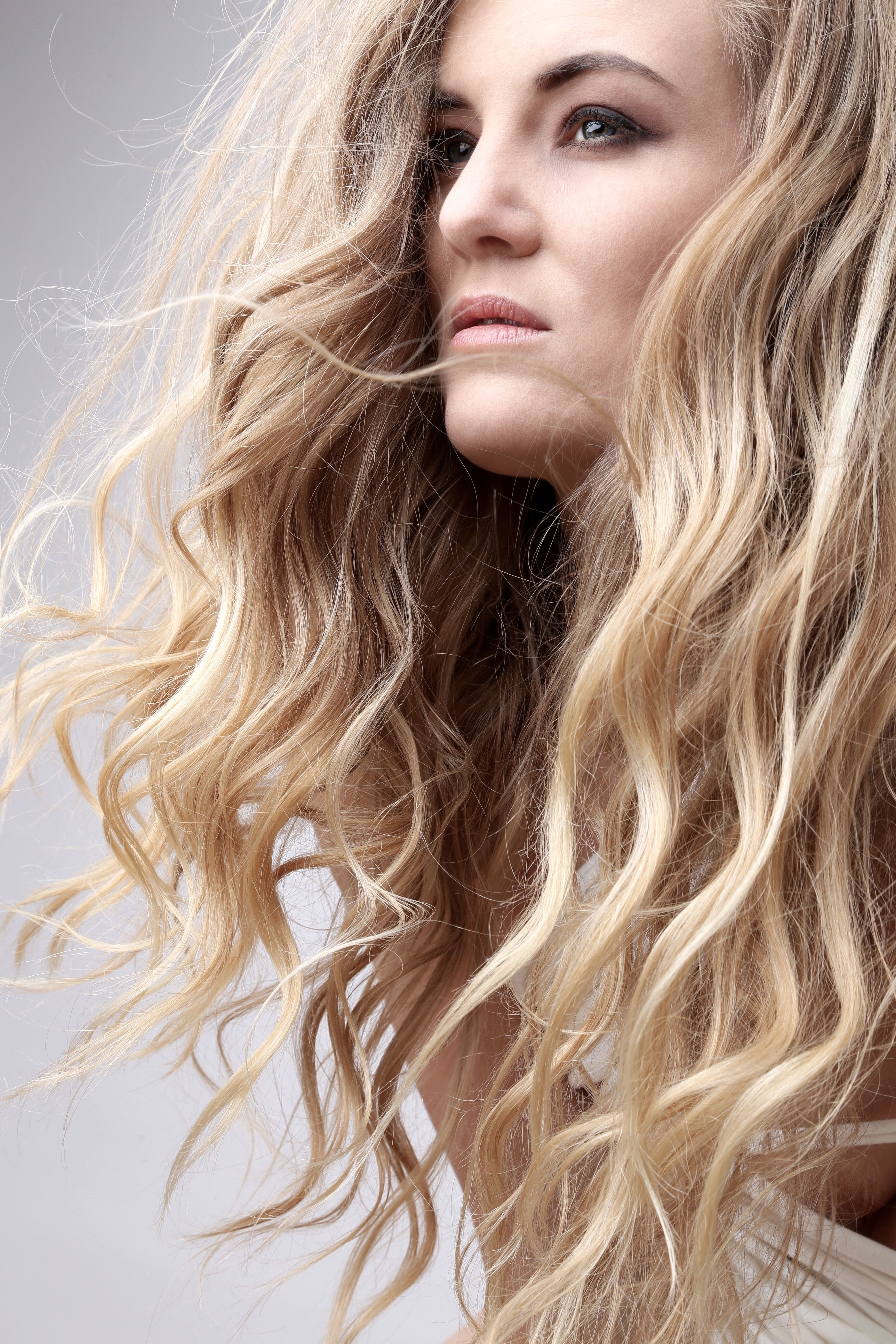 Press and artwork photo for her debut single "Nobody's Prey" under her new artist name "Sémmane".